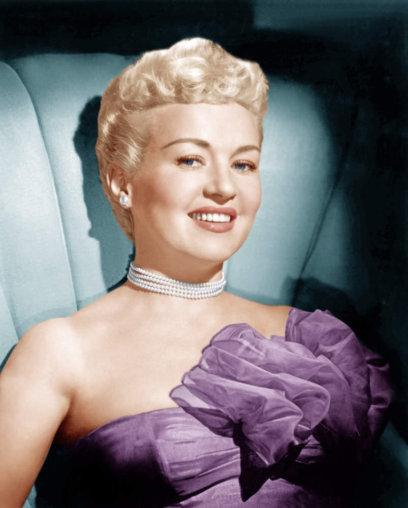 Publicity photo of Betty Grable